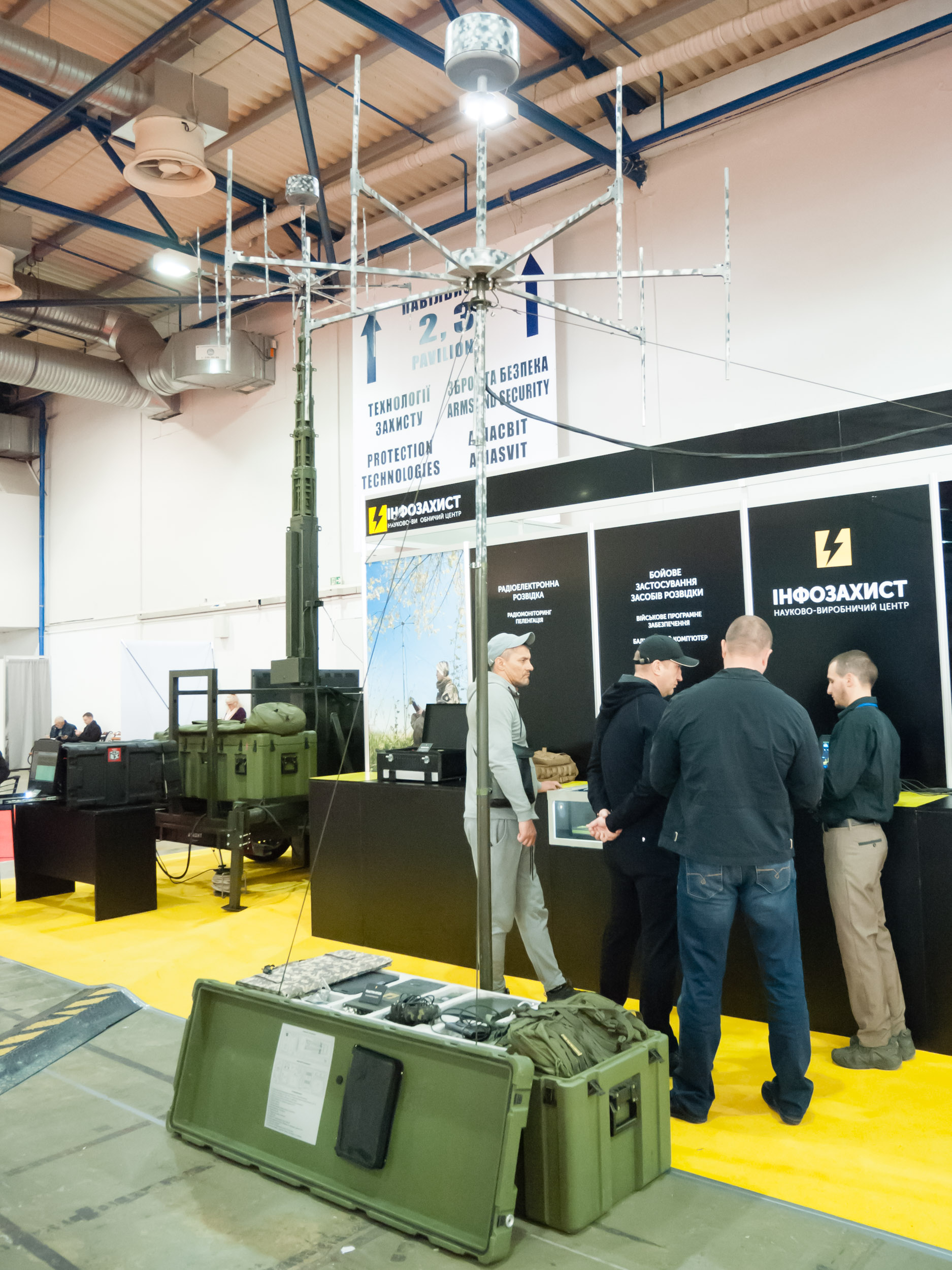 Plastun RP-3000 electronic warfare complex by Infozahyst (Ukraine), 'Zbroya ta Bezpeka' military fair, Kyiv, Ukraine, 2018